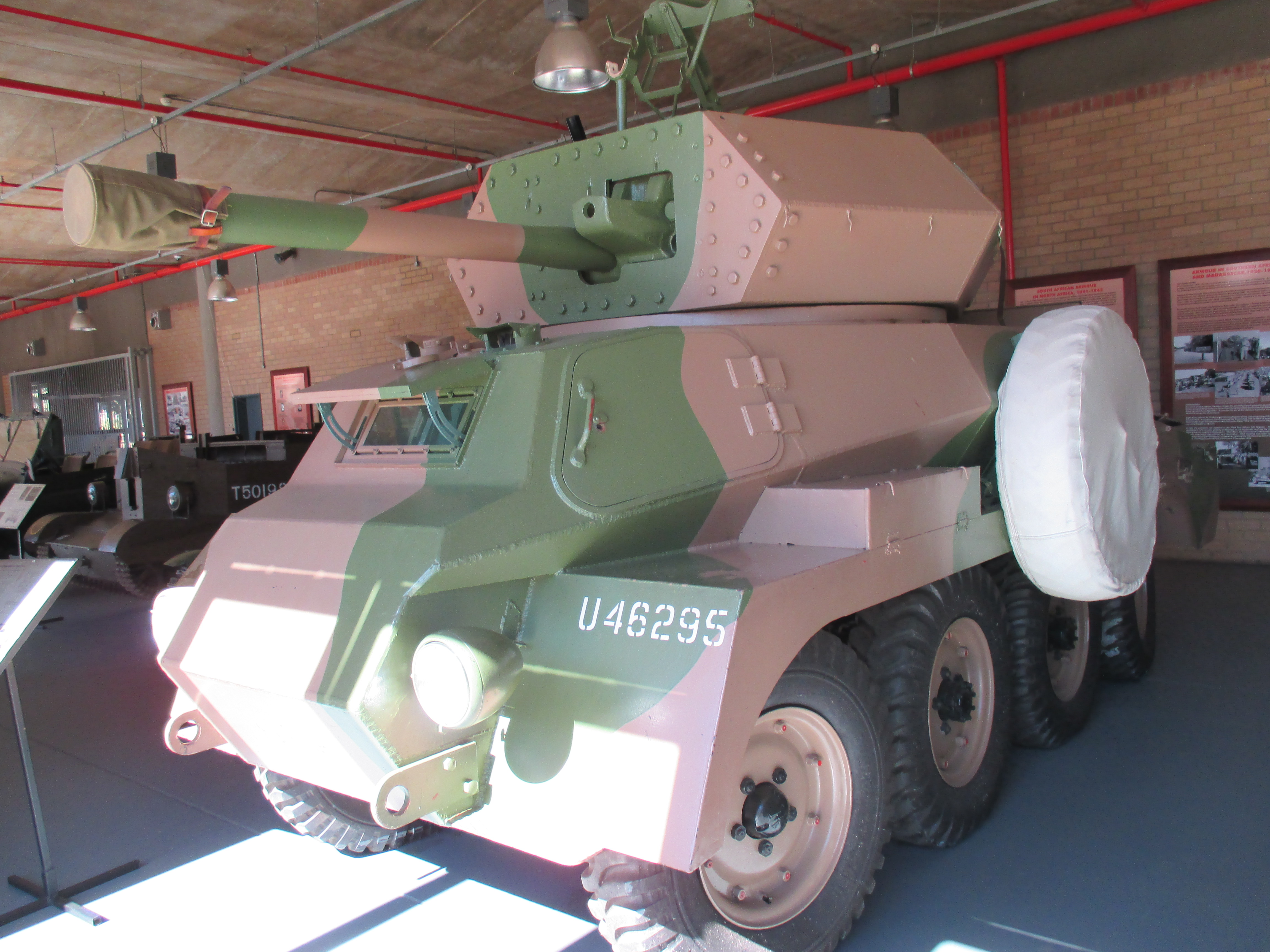 Marmon Herrington Mk VI in the South African National Museum of Military History, Johannesburg